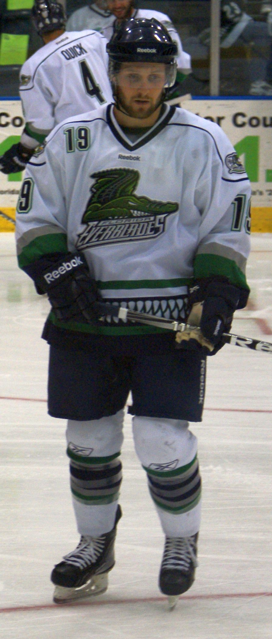 Bobby Raymond warming up before a hockey game on May 2, 2012Unknown